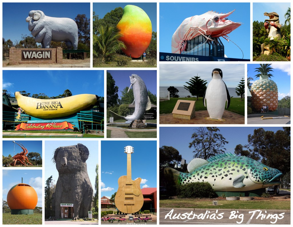 Virtual postcard of a selection of well known Australian Big Things. Derived from images sourced from Wikimedia Commons in Big Things category; compiled using Picasa.